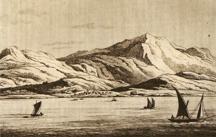 View of Vostizza (now Aigio) dating from the 17th century